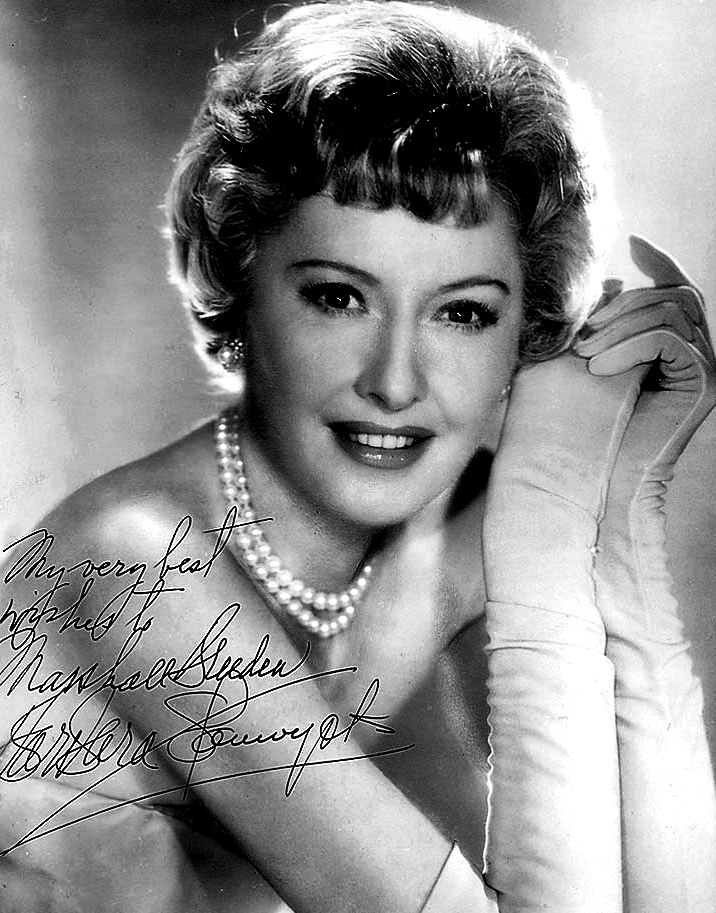 Signed publicity photo of Barbara Stanwyck